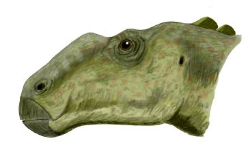 Head of Gryposaurus notabilis, a hadrosaur from the Late Cretaceous of North America, pencil drawing